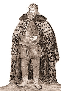 BATHORI CRISTOPH 1530-1581